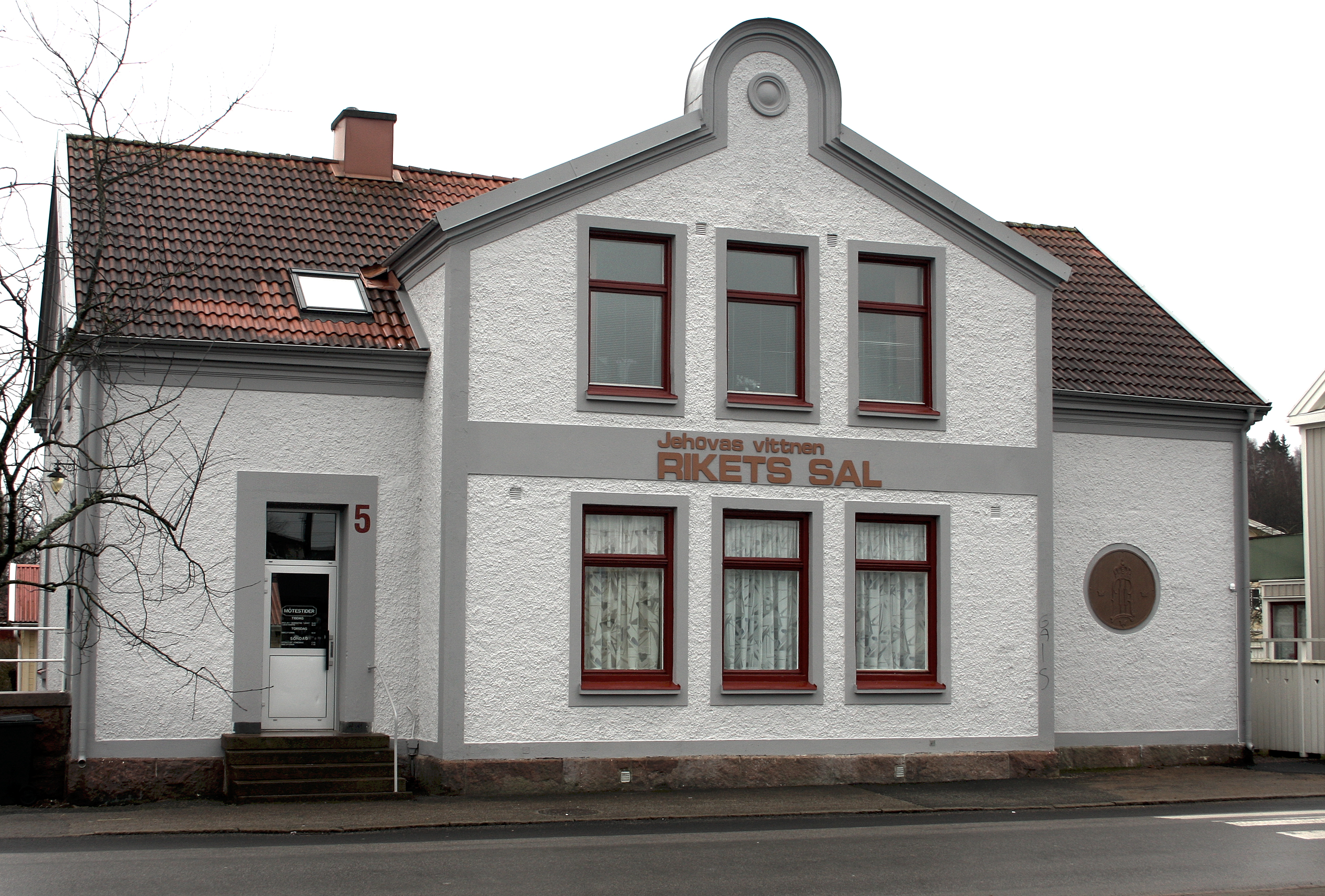 Jehovah's Witnesses' Kingdom hall in Vårgårda, Sweden